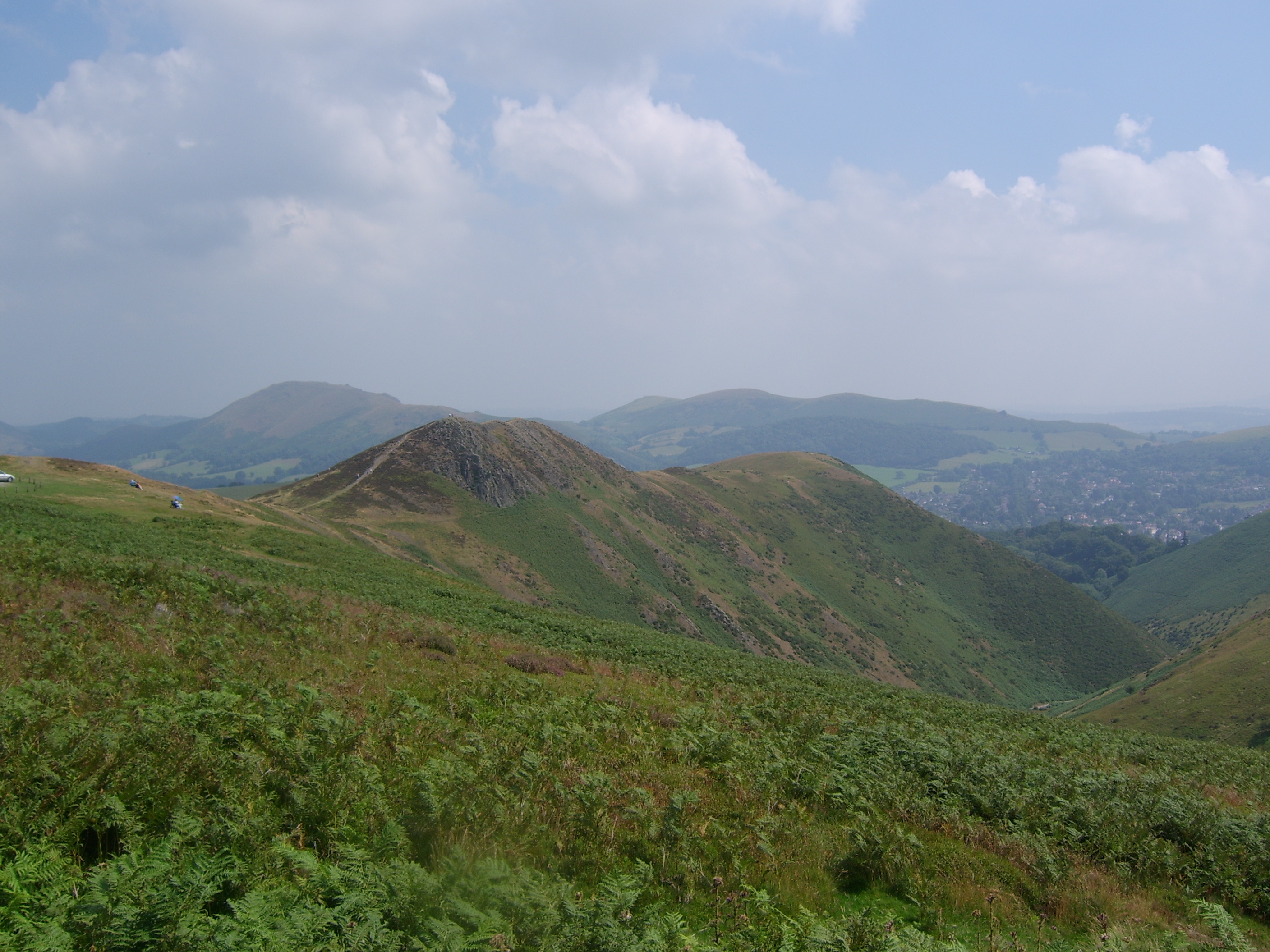 Long Mynd view